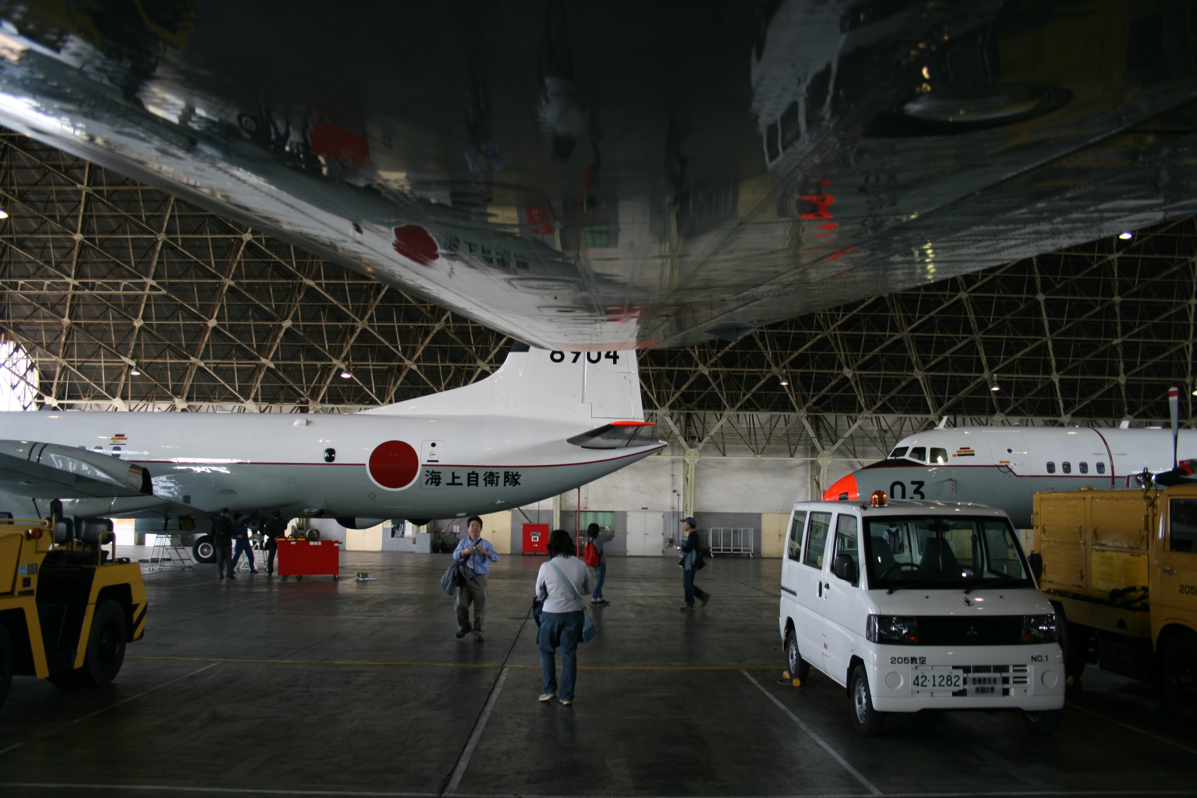 Inside the hangar of Shimofusa Air Base.